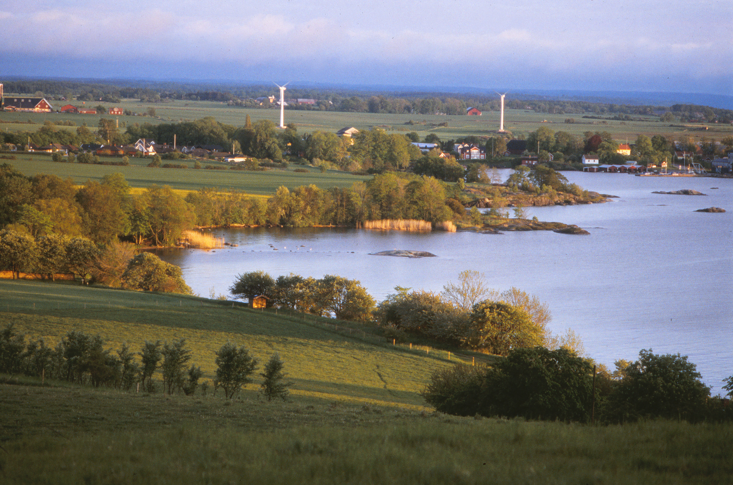 The landscape surounding "King Sverker chapel" near the Alvastra monastery in Sweden.